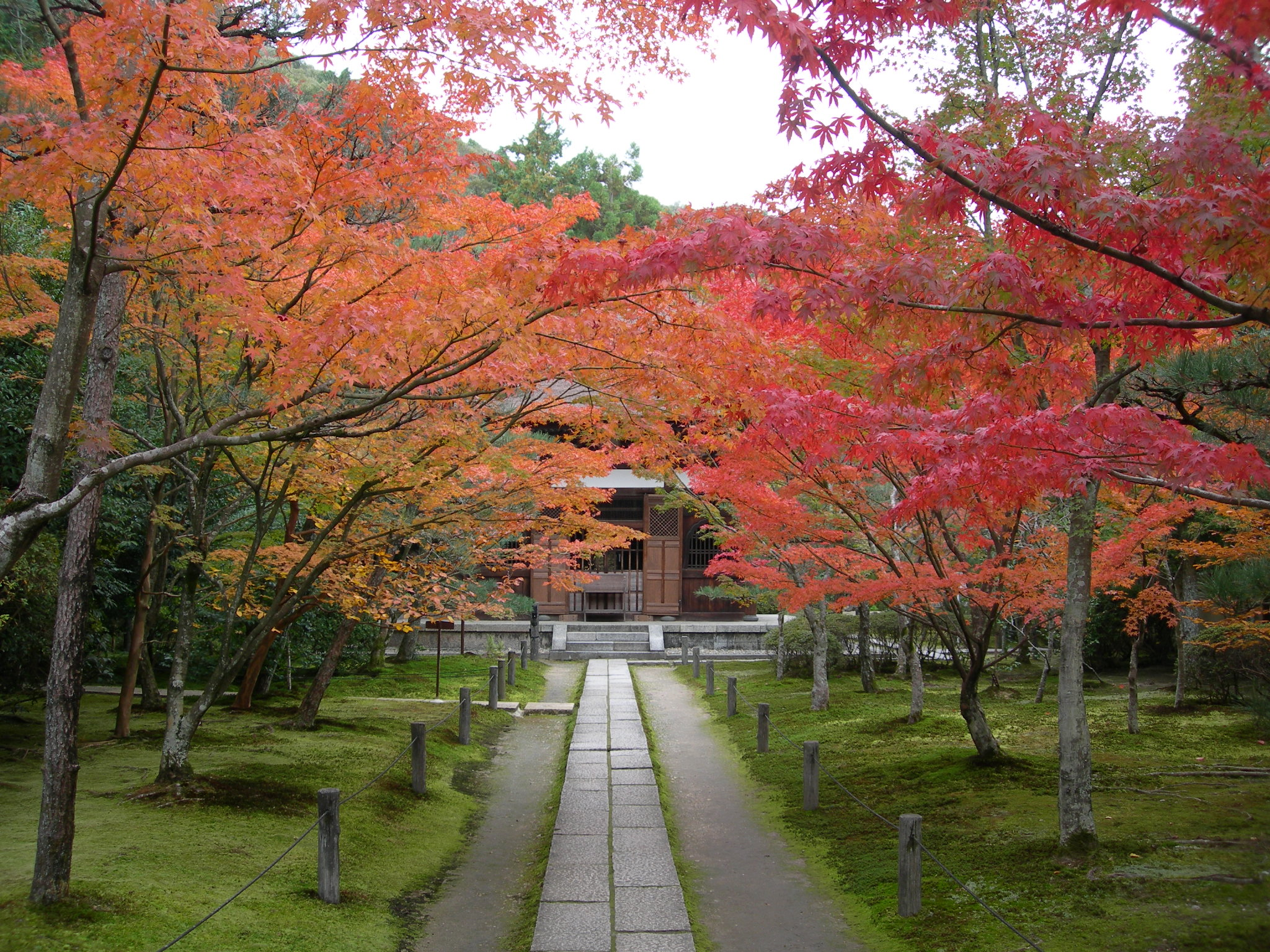 Road from Hondo (Mahavira Hall) (Important Cultural Properties of Japan) of Ikkyu-Ji Temple, Kyōtanabe, Kyoto. taken in 2010.